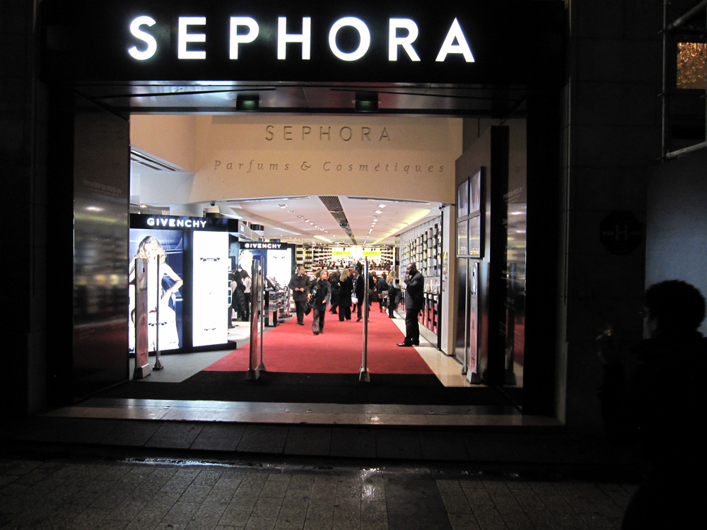 Now walking les Champs d'Elysées, the grand shopping street that runs between the Arc de Triomphe and the Louvre. Here is a Sephora store. Sephora is a French chain selling cosmetics and perfumes. As much as I love shopping for such items (and I do shop Sephora stateside quite a bit), I did not shop here.